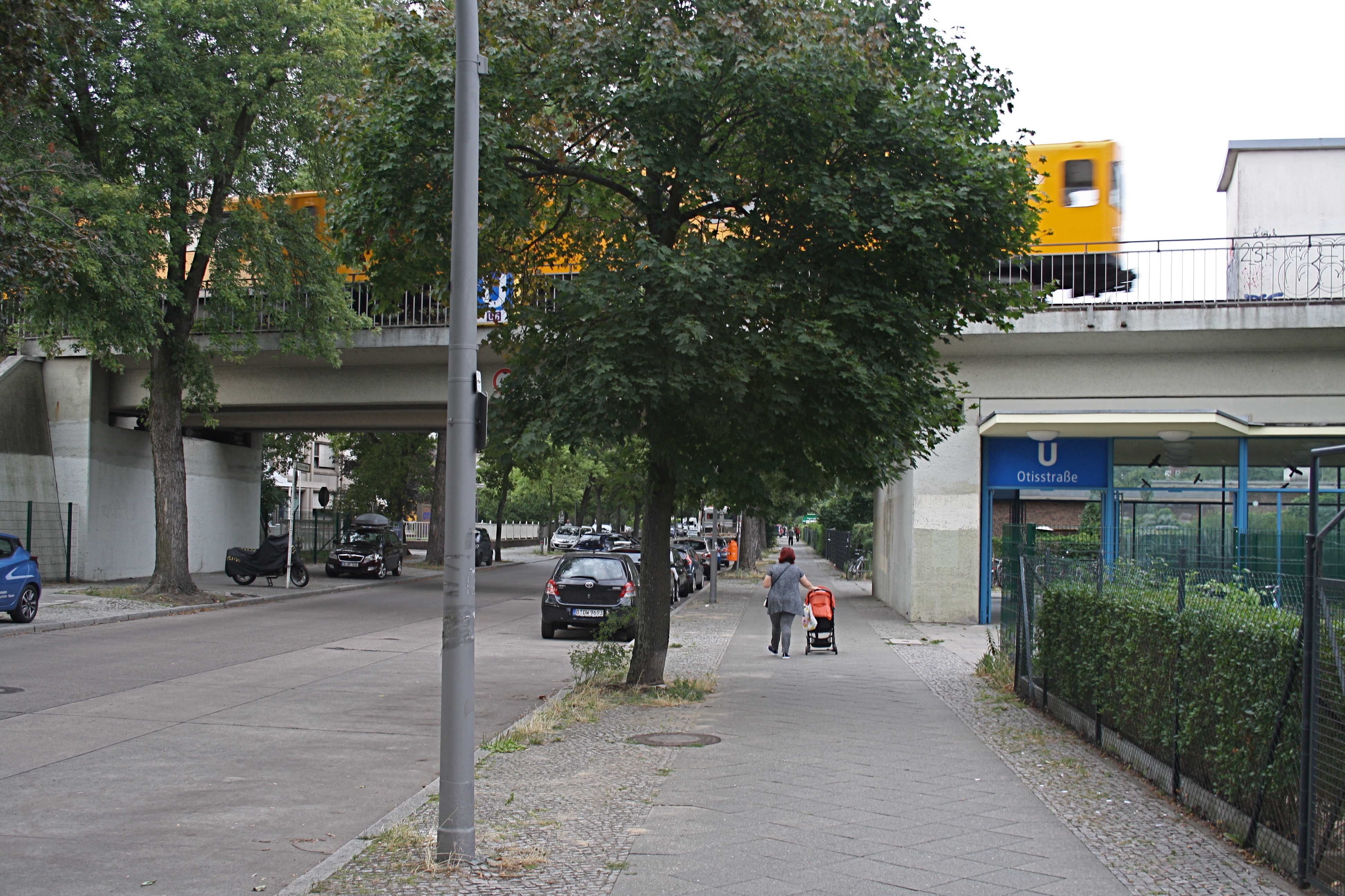 Street called "Otisstraße" and Otisstraße U-Bahn station in Berlin-Reinickendorf